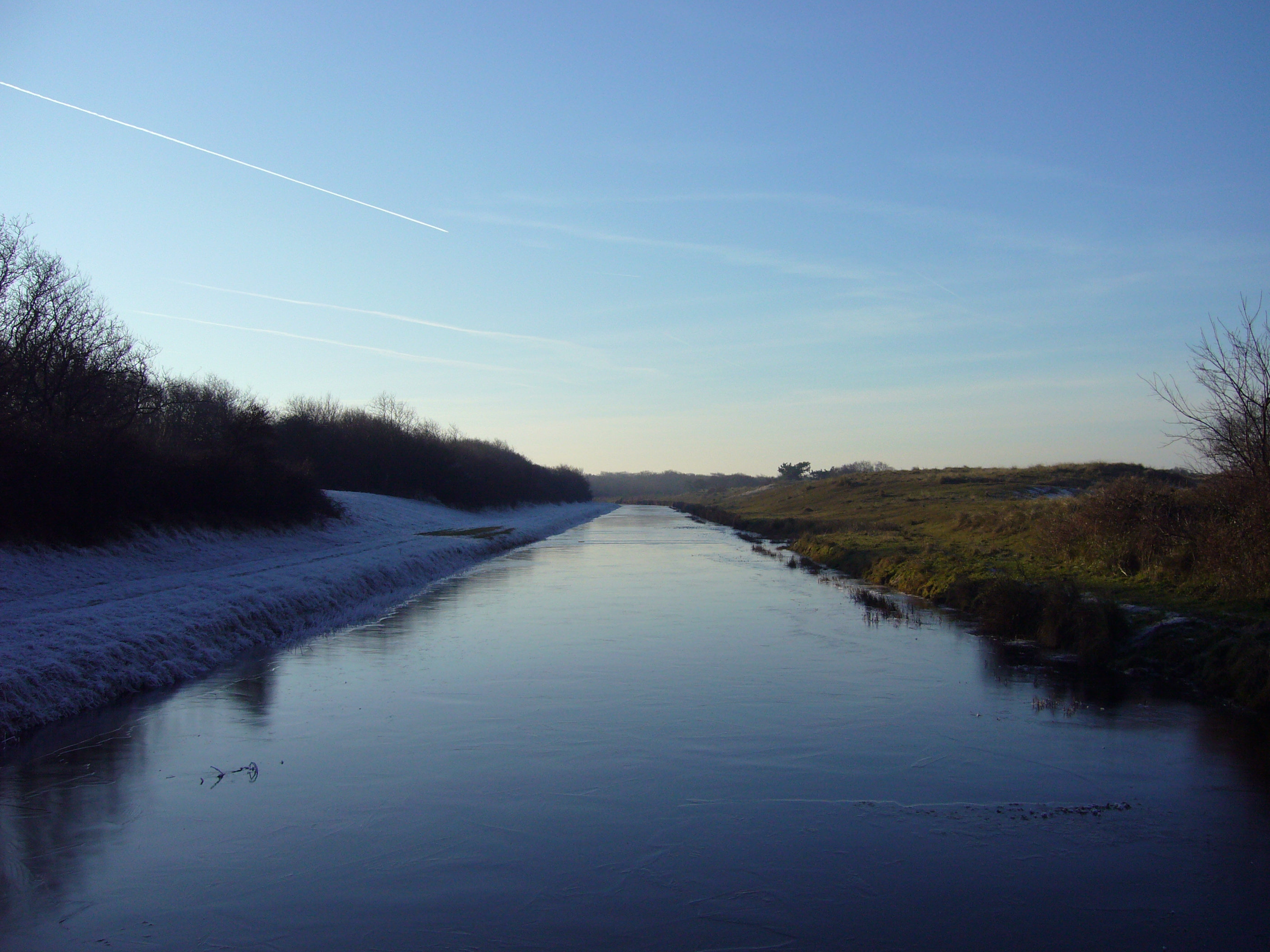 Black ice over a river in Holland. Taken during the winter 2007. Original photographer notes: "Wish I had brought a rounded small stone with me, to throw it onto the black ice of this frozen canal in the dunes. The sounds that such a stone makes when it slides and bounces on the ice for hundreds of meters is so distinctive."